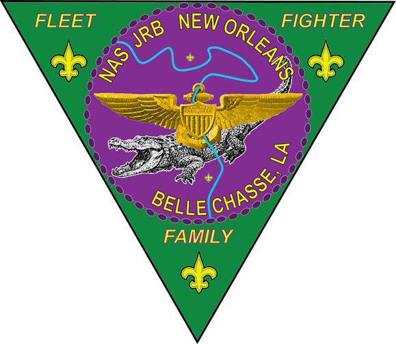 This is the official insignia of the Naval Air Station Joint Reserve Base New Orleans.